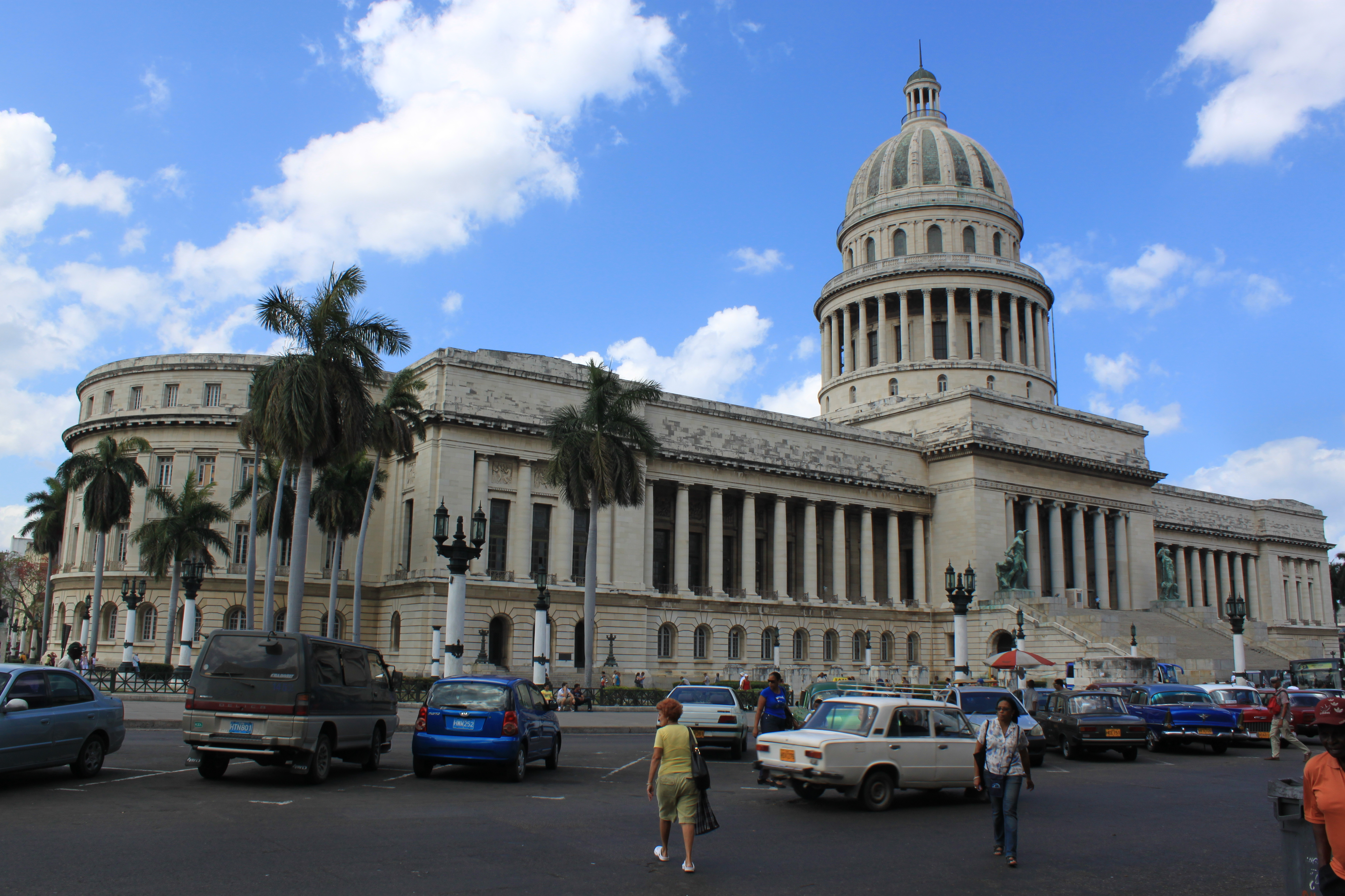 Capitol in Havana, Cuba